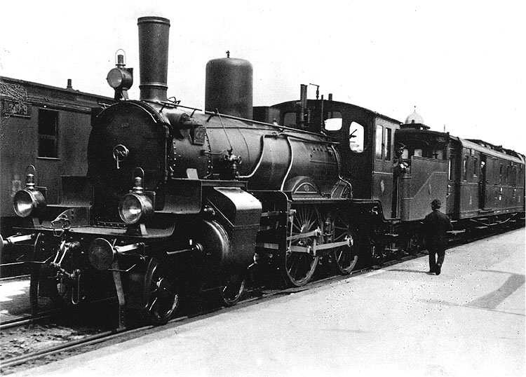 Steam locomotive Prussian S 3 at Berlin-Charlottenburg train station.